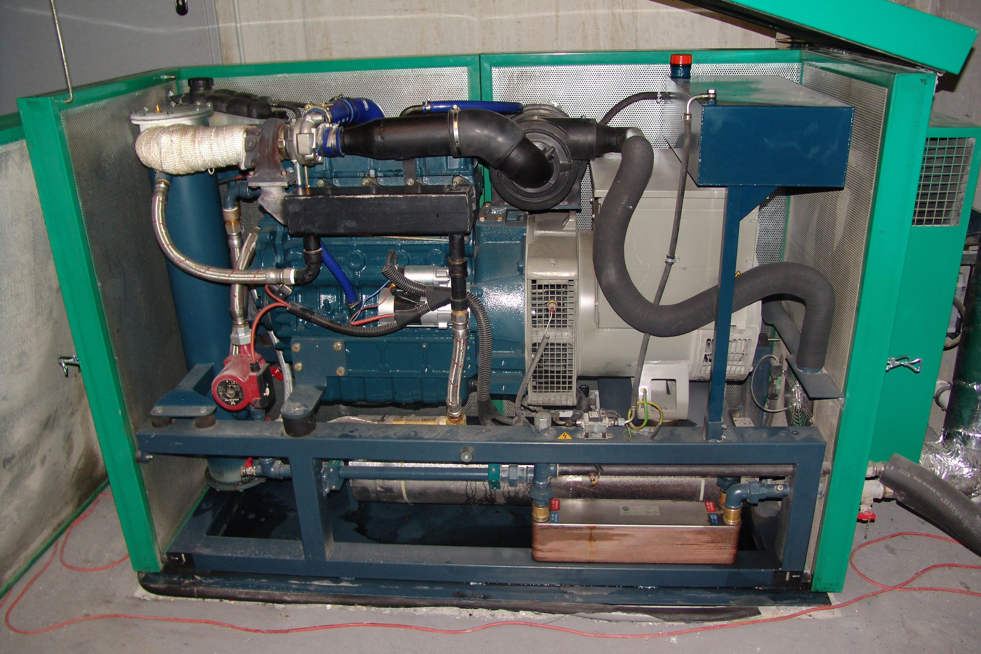 A combined heat and power unit (CHP) that runs on cold-pressed rapeseed oil (that you could even eat), 4of4 with acoustic insulation removed